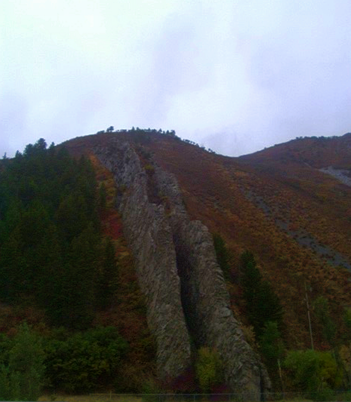 Devil's Slide (Utah)